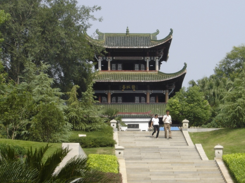 郁孤台 Yugu Pavilion